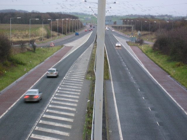 The Blackpool end of the M55 motorway. This part of the motorway runs over the route of the former direct railway line between Blackpool South railway station and Kirkham. A flock of birds are wheeling round before roosting.